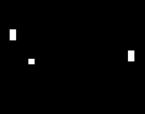 Screenshot Federball Philips Tele-Spiel ES 2201